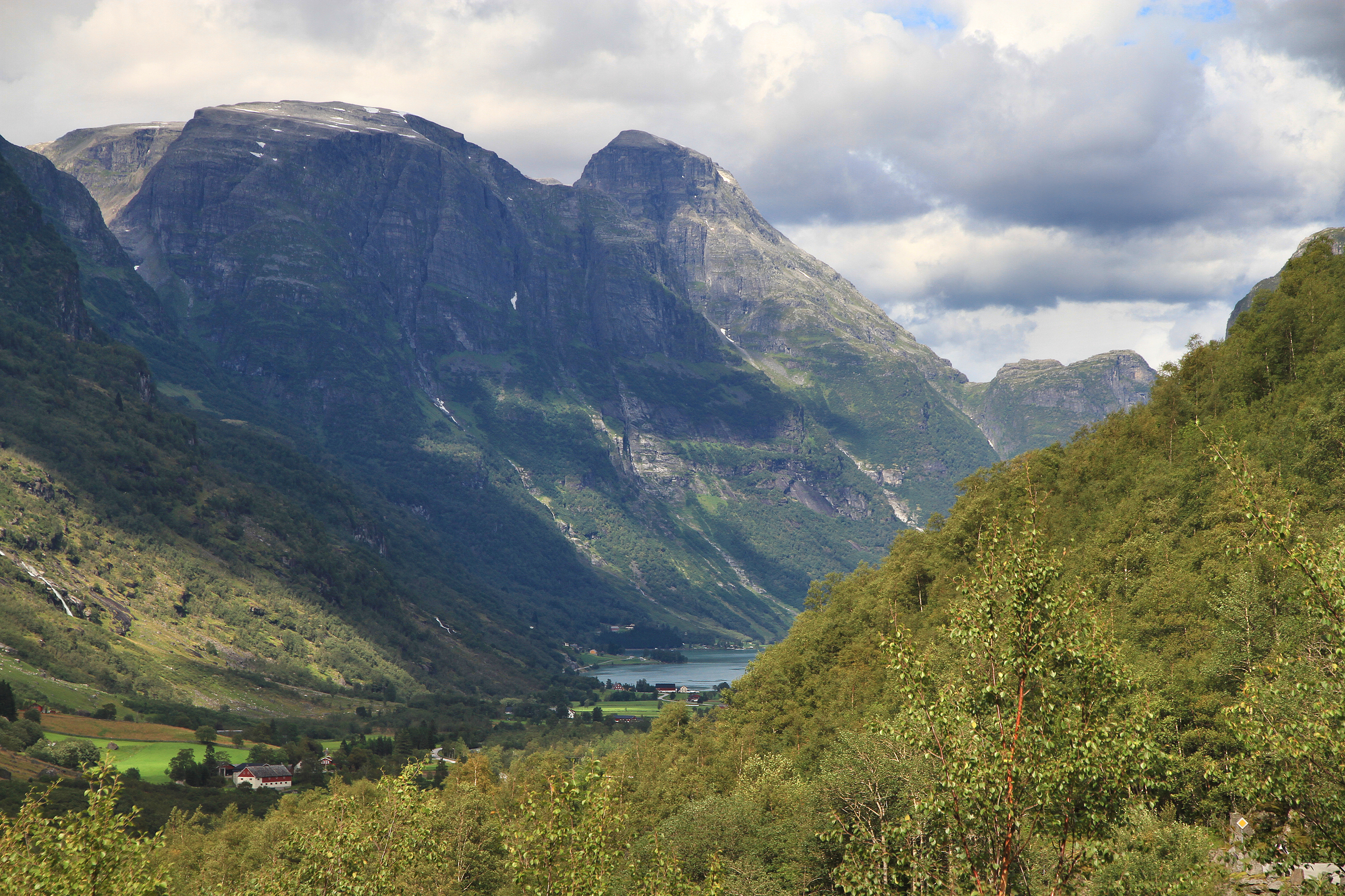 A view to Oldedalen towards north, Stryn, Sogn og Fjordane, Norway in 2011 August. Sandvikfjellet in the background.